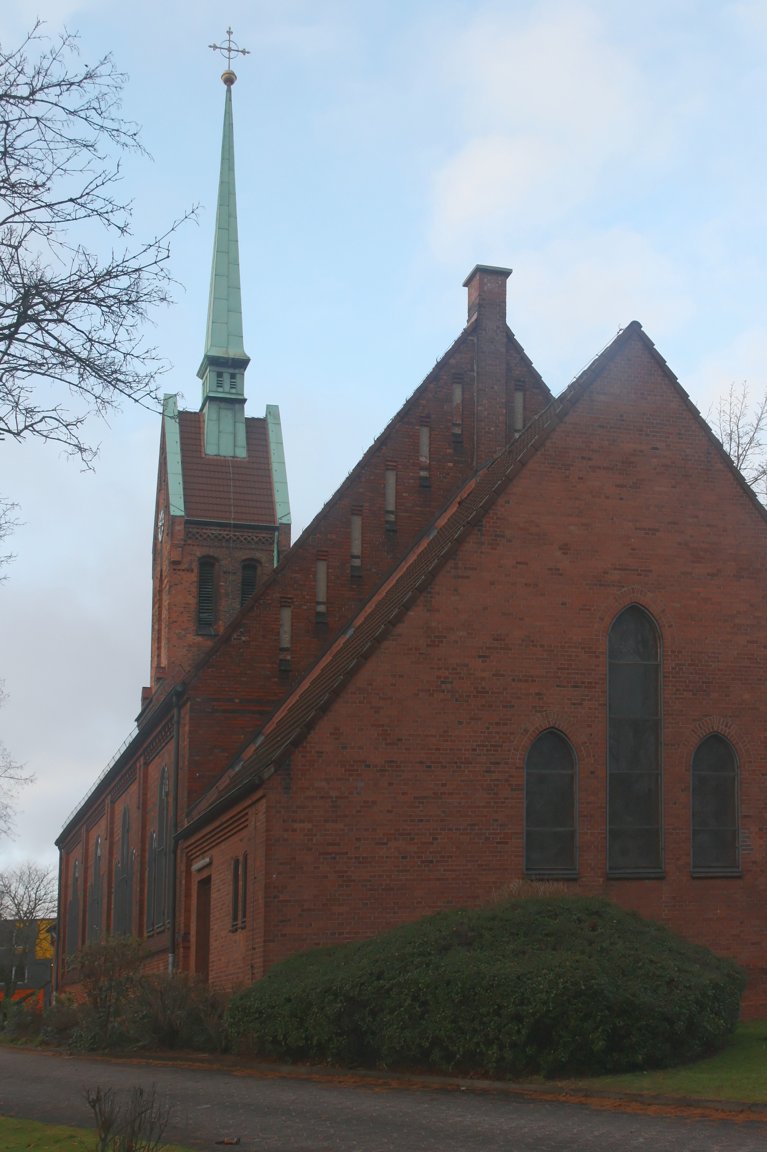 Martin's Church (named after Martin Luther), Hamburg-Horn, eastern viewThis is a photograph of an architectural monument.